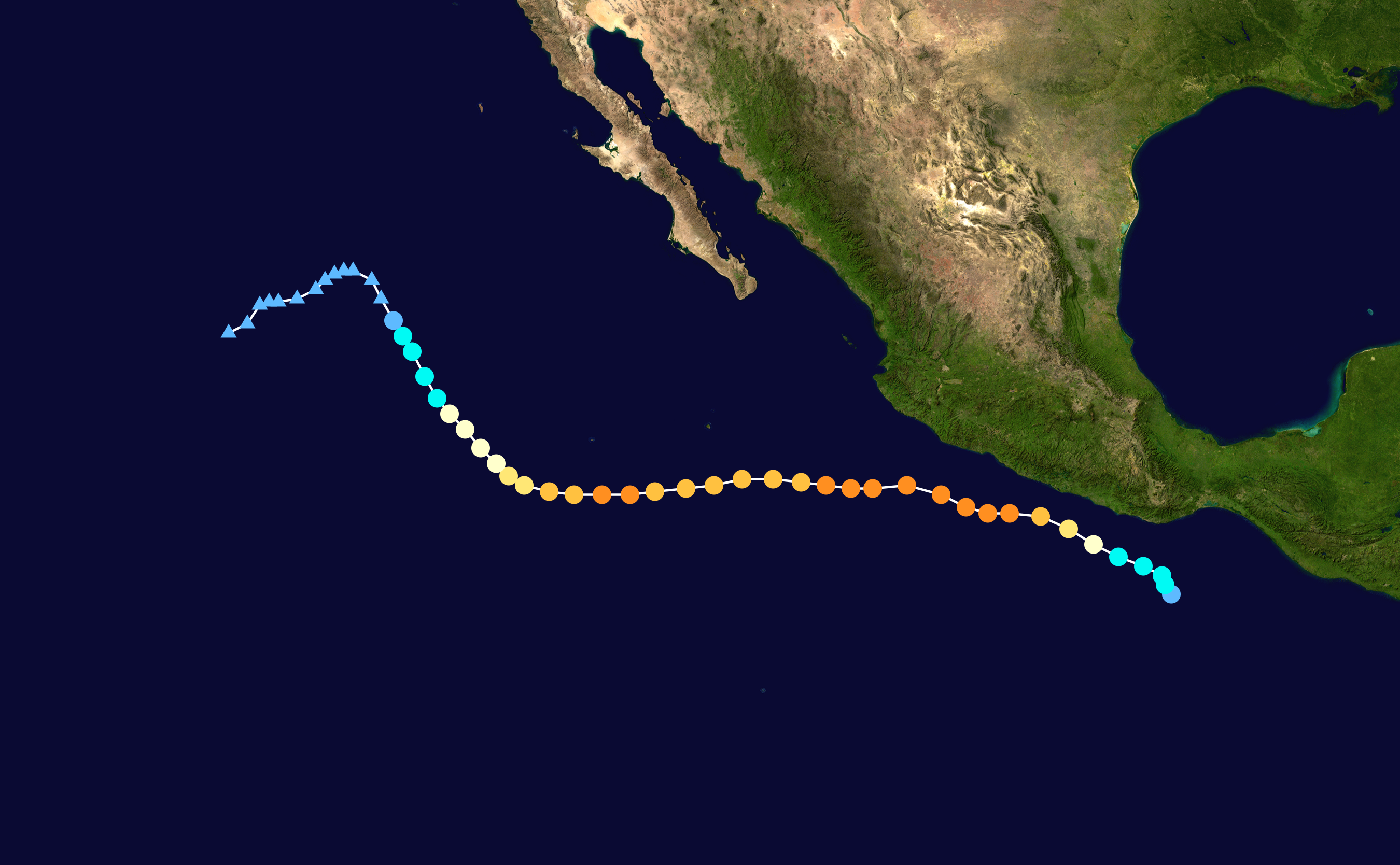 Track map of Hurricane Hilary of the 2011 Pacific hurricane season. The points show the location of the storm at 6-hour intervals. The colour represents the storm's maximum sustained wind speeds as classified in the Saffir–Simpson scale (see below), and the shape of the data points represent the nature of the storm, according to the legend below. Saffir–Simpson scale Tropical depression≤38 mph≤62 km/h Category 3111–129 mph178–208 km/h Tropical storm39–73 mph63–118 km/h Category 4130–156 mph209–251 km/h Category 174–95 mph119–153 km/h Category 5≥157 mph≥252 km/h Category 296–110 mph154–177 km/h Unknown Storm type Tropical cyclone Subtropical cyclone Extratropical cyclone / Remnant low / Tropical disturbance / Monsoon depression